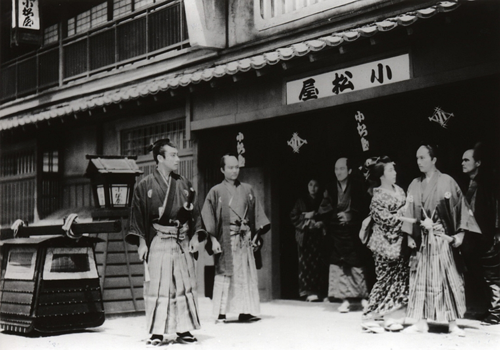 Scene from Sanjūsangen-dō tōshiya monogatari (三十三間堂通し矢物語) directed by Mikio Naruse in 1945. In the foreground, from left to right : Kazuo Hasegawa, Akitake Kōno, Kinuyo Tanaka and Senshō Ichikawa.